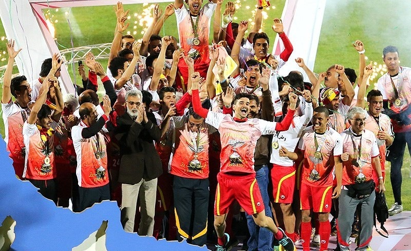 Foolad F.C. won their second Iran Pro League (Persian Gulf Pro League) title